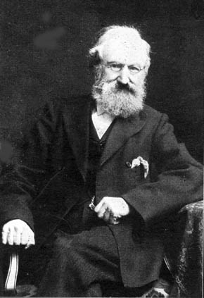 Photograph of Mordecai Cubitt Cooke, American author and naturalist